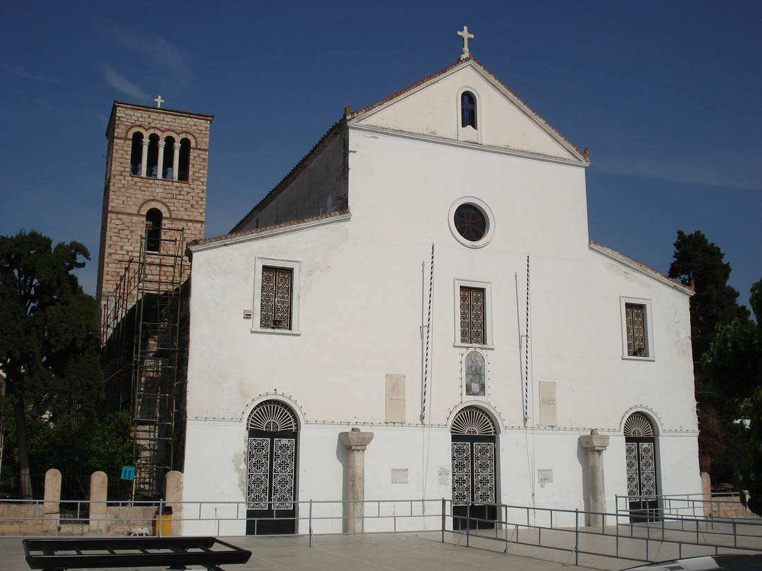 Greek Orthodox Church. Chalkida, Greece.